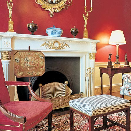 Summary The Truman Room at Blair House, the state guest house of U.S. presidents.